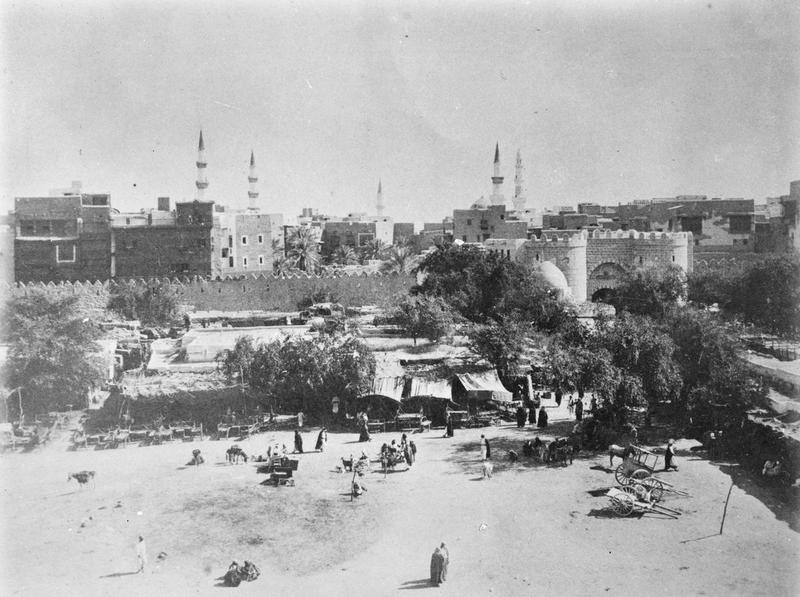 T E Lawrence and the Arab Revolt 1916 - 1918 Medina - South West (Mecca) Gate, "Bab el Misr" ? from Barr el Munakhah. Jebel Okhod in distance on left.